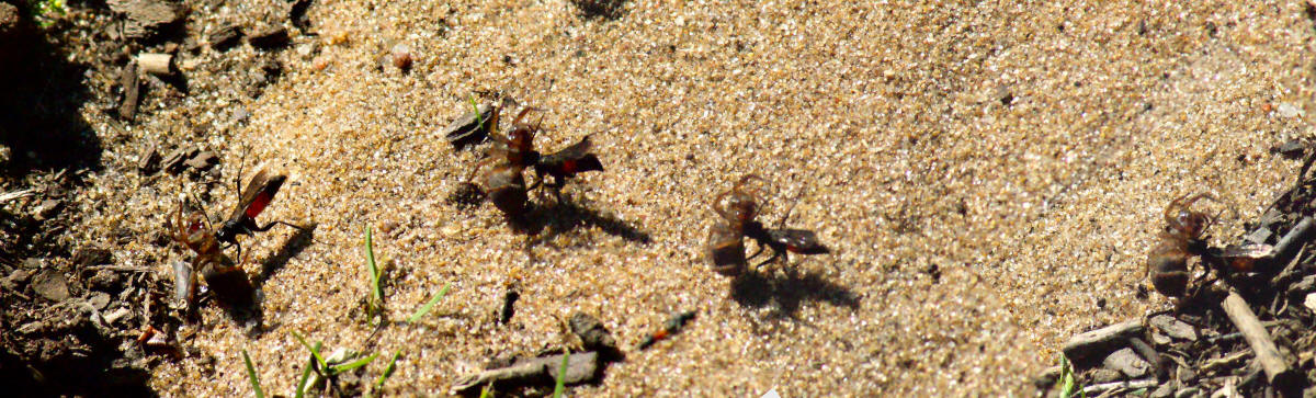 Spider-hunting wasp is seen in 4 stages of this true composite image, running backwards, dragging a spider larger than itself across the bare sand of The Lodge, Sandy, Bedfordshire, England